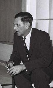 Puerto Rico Secretary of State, Roberto Sanches Vilella, 1958.